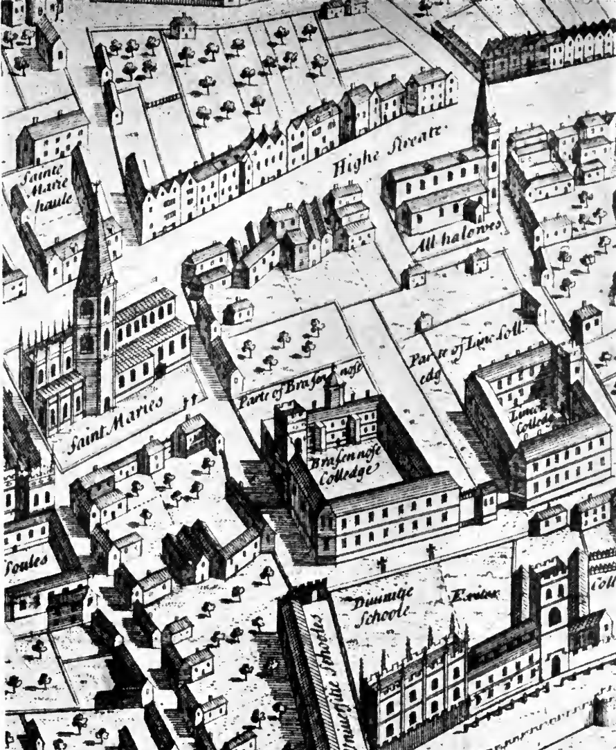 Part of a map of Oxford by Ralph Agas in 1578, looking southwards.